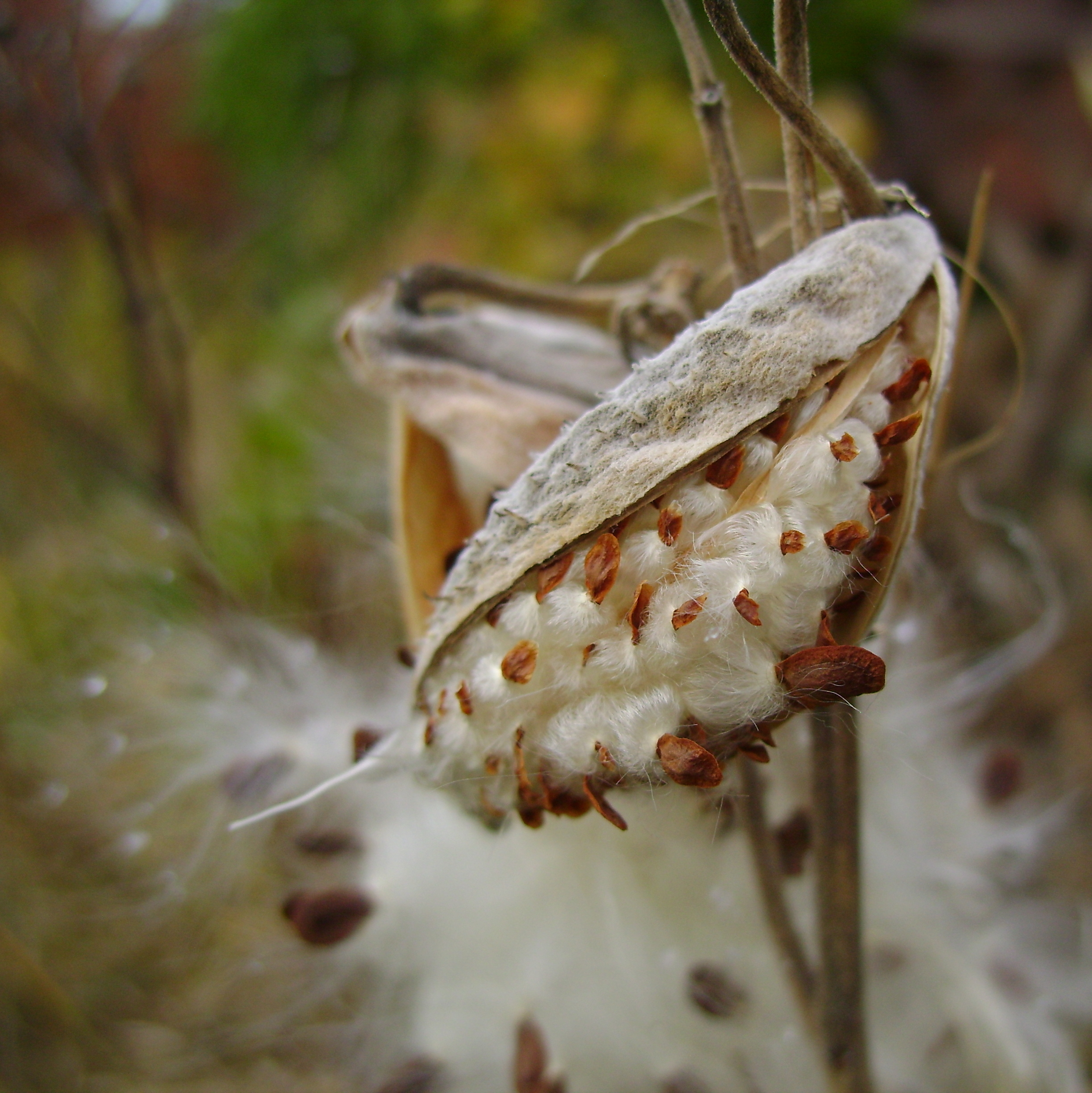 Fruit (follicle) of Common Milkweed (Asclepias syriaca). Taken in autumn, in Saint-Pacôme, Québec.